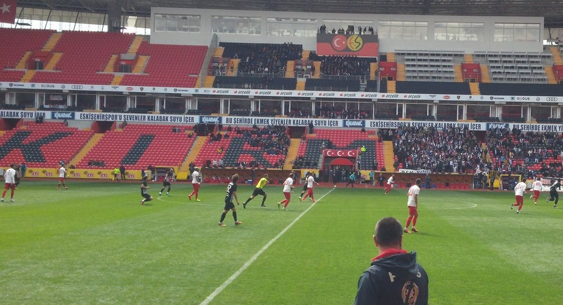 Turkish Bölgesel Amatör Lig (Regional Amateur League) Bucak Bld. Oğuzhanspor 1-3 Utaş Uşakspor play-off match (2016-2017 season)